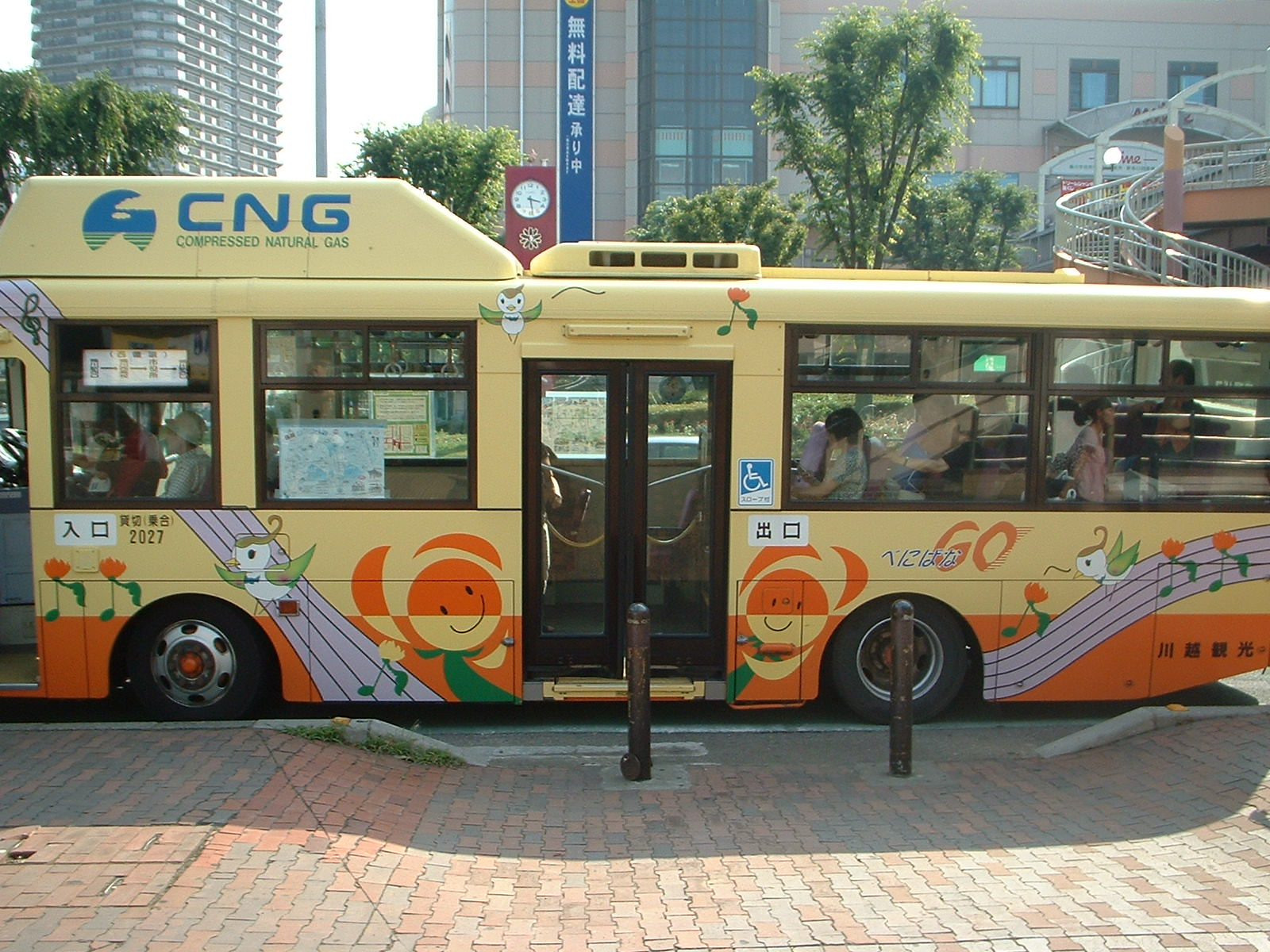 Nissan Diesel Space Runner RM for Okegawa City community bus Benibana Go western circle line